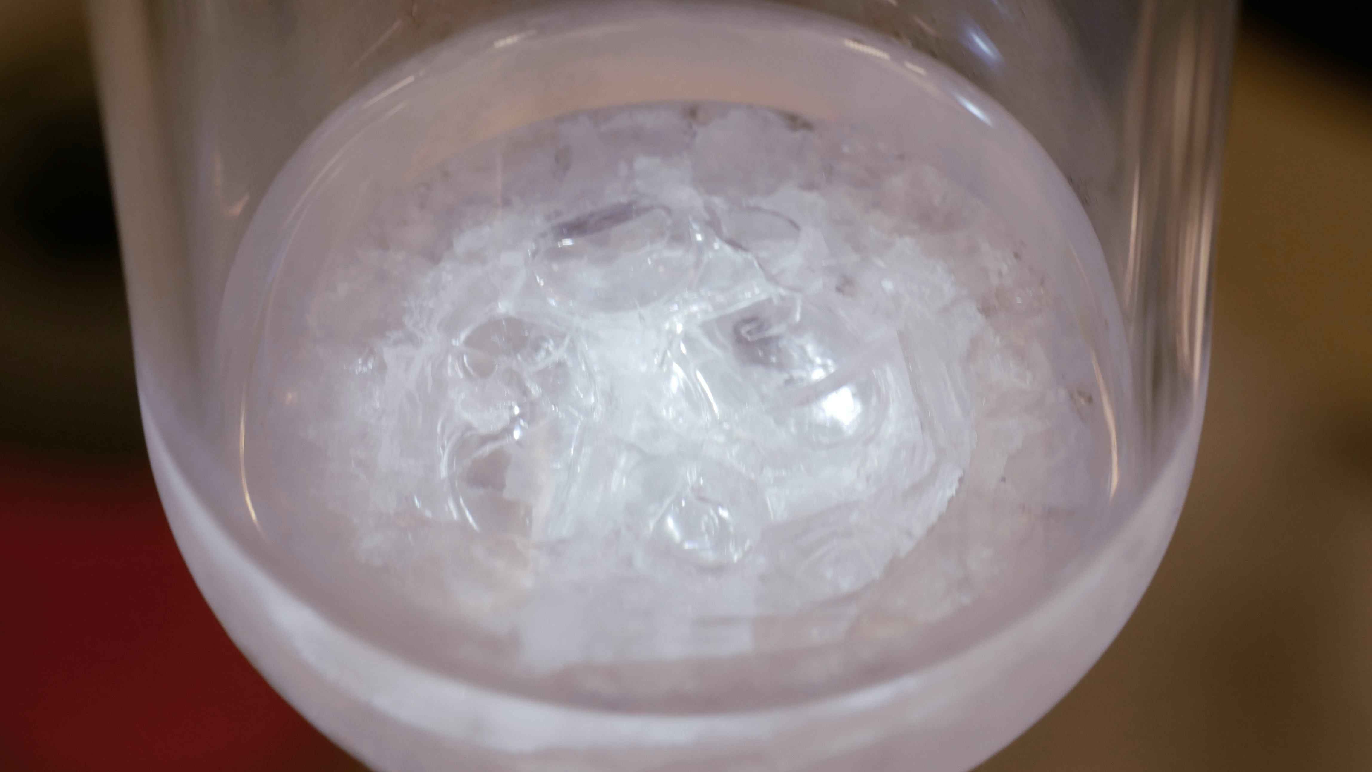 Pure titanium tetrachloride at its triple point, inside of an airtight glass flask. All three phases are present: solid crystals are melting and have sunk in the liquid, while the rest of the flask is filled with gaseous TiCl4 (invisible). Some moisture from the ambient air has condensed on the outside of the flask, near the bottom.